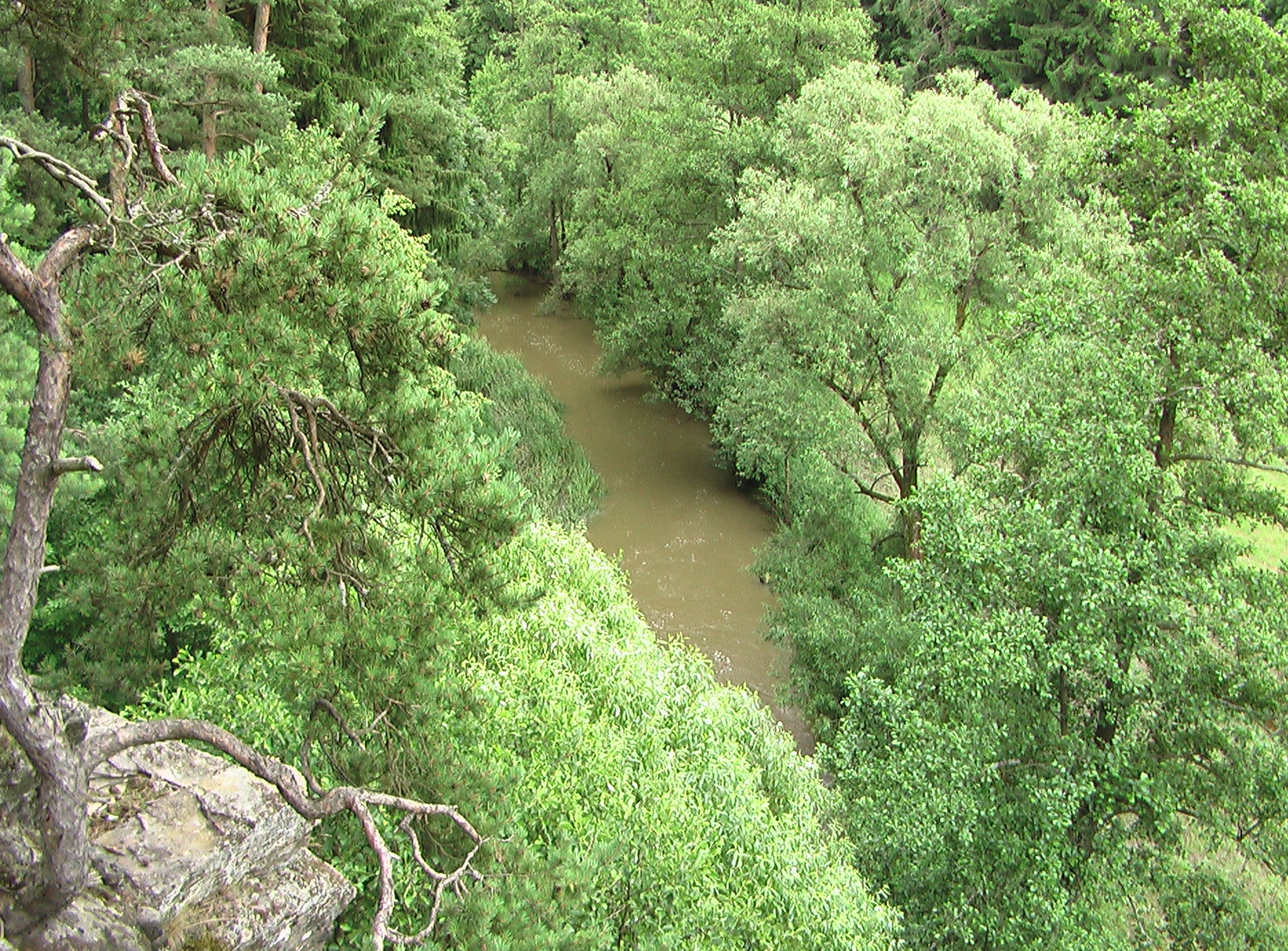 The Želetavka River near Police, Moravia, Czech Republic